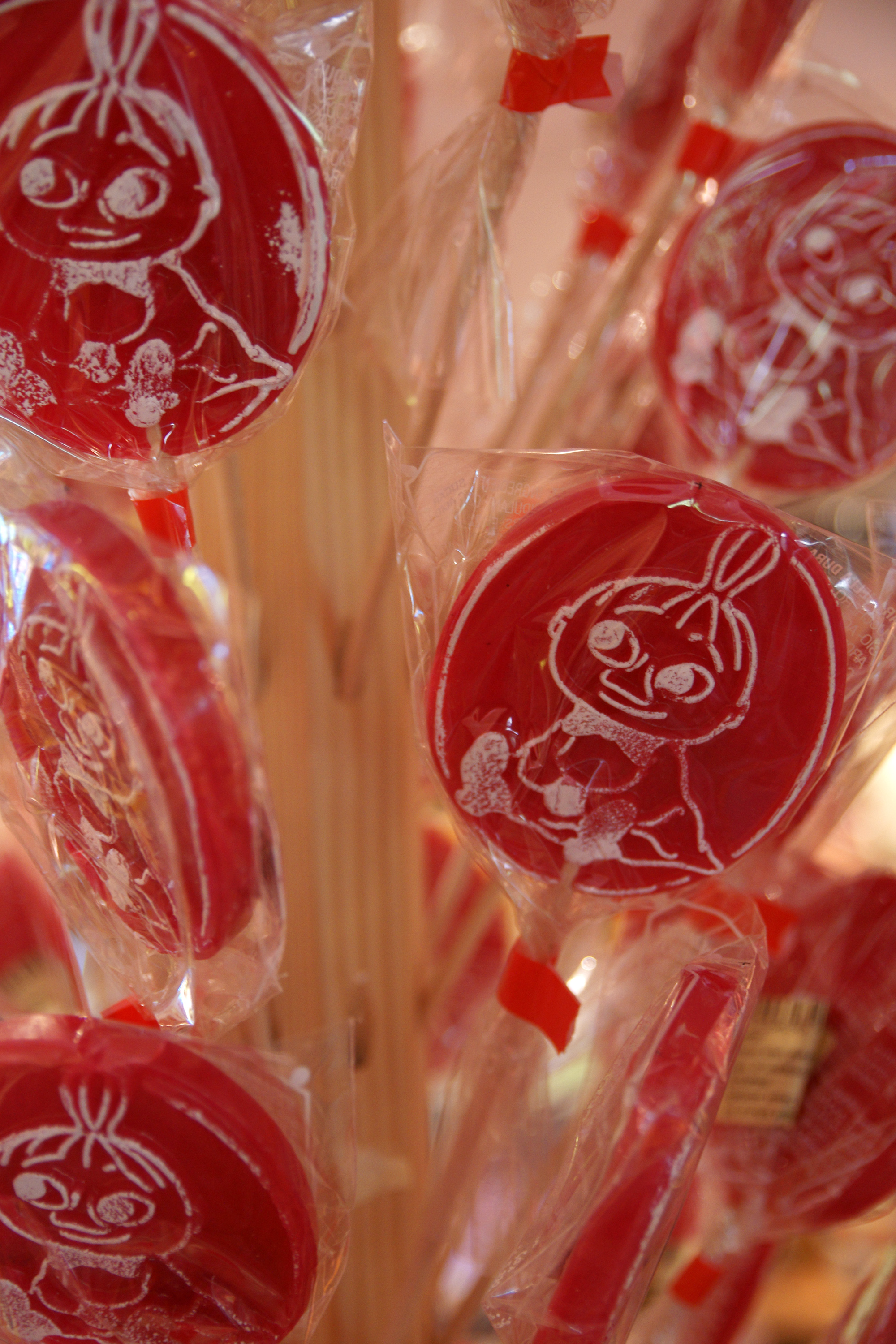 Little My -lollipops in Muumimaailma, Naantali.